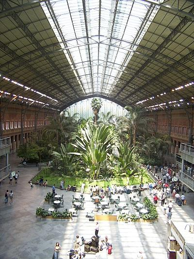 Interior of old Atocha station, Madrid, Spain, from July 2002. It is supposed to be prohibited to take photographs inside the station.